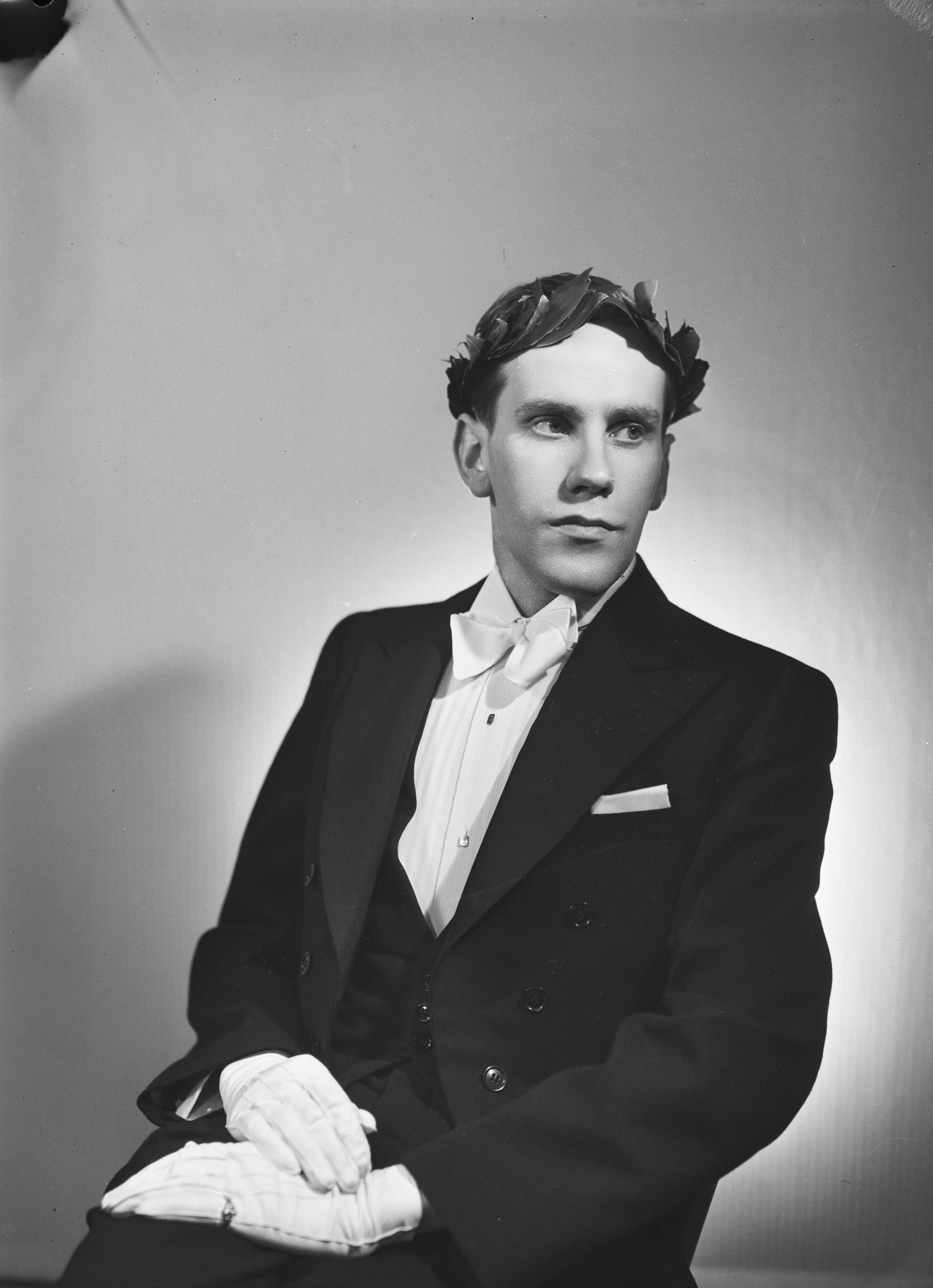 Photograph of the Finnish historian Jaakko Paavolainen (1926–2007) as a Master of Philosophy, with a laurel wreath.